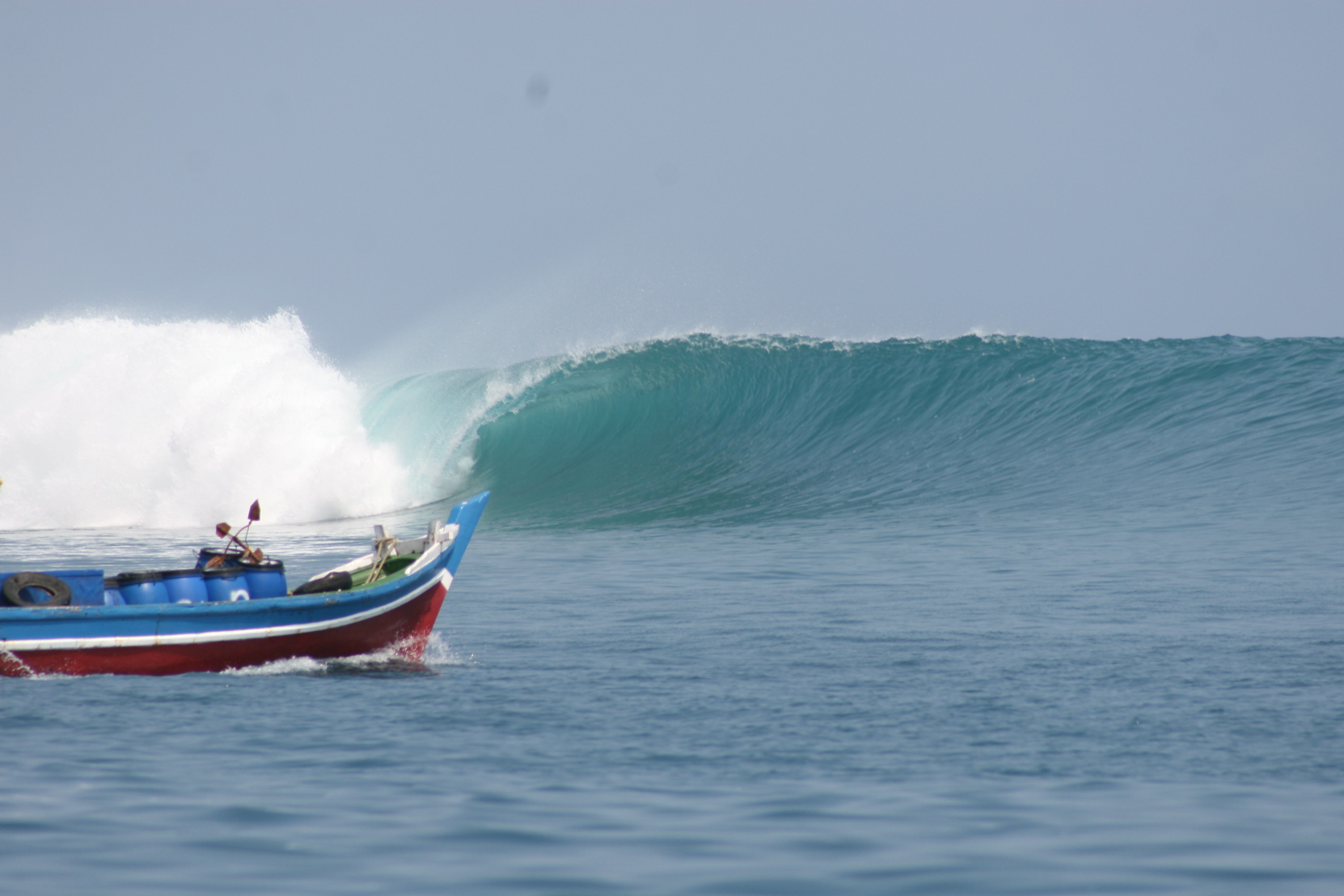 Around Ujung Kulon National Park, Indonesia.